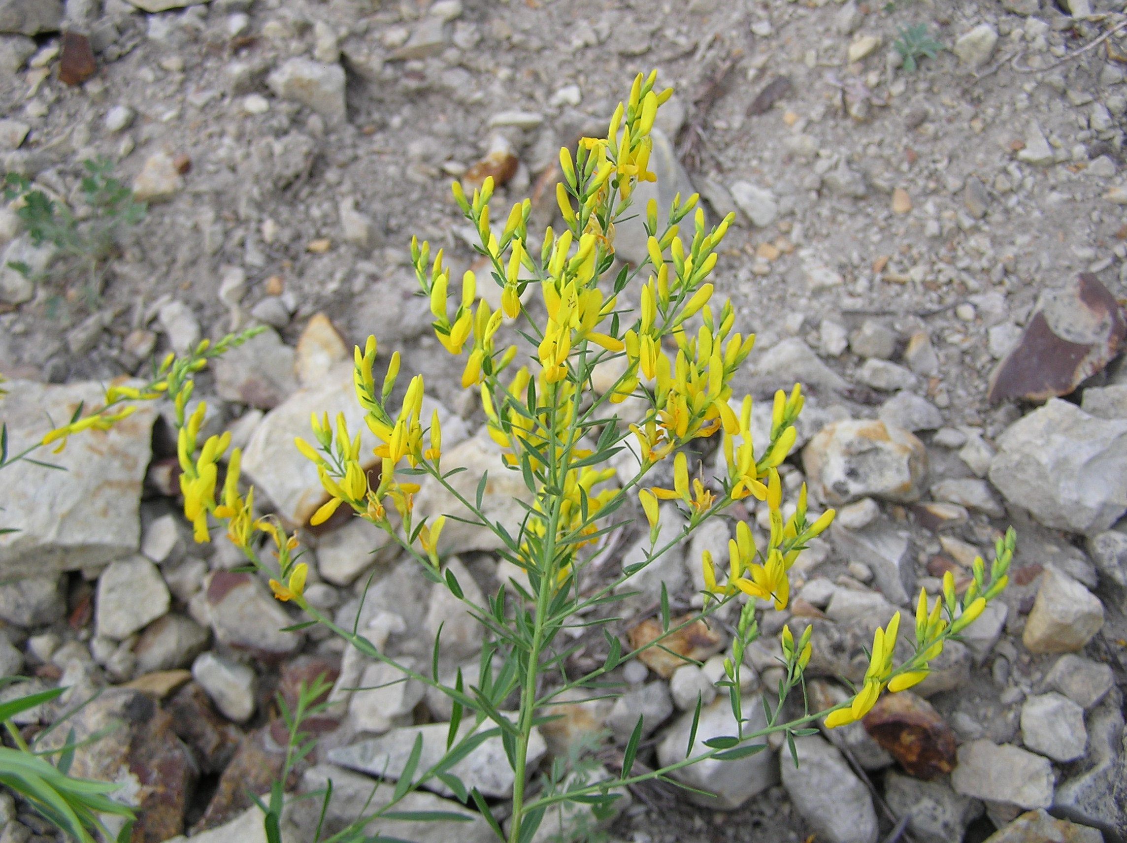 Genista tinctoria (L.). Habitat: south-western rocky slope. Vicinity of Saratov city, Russia.